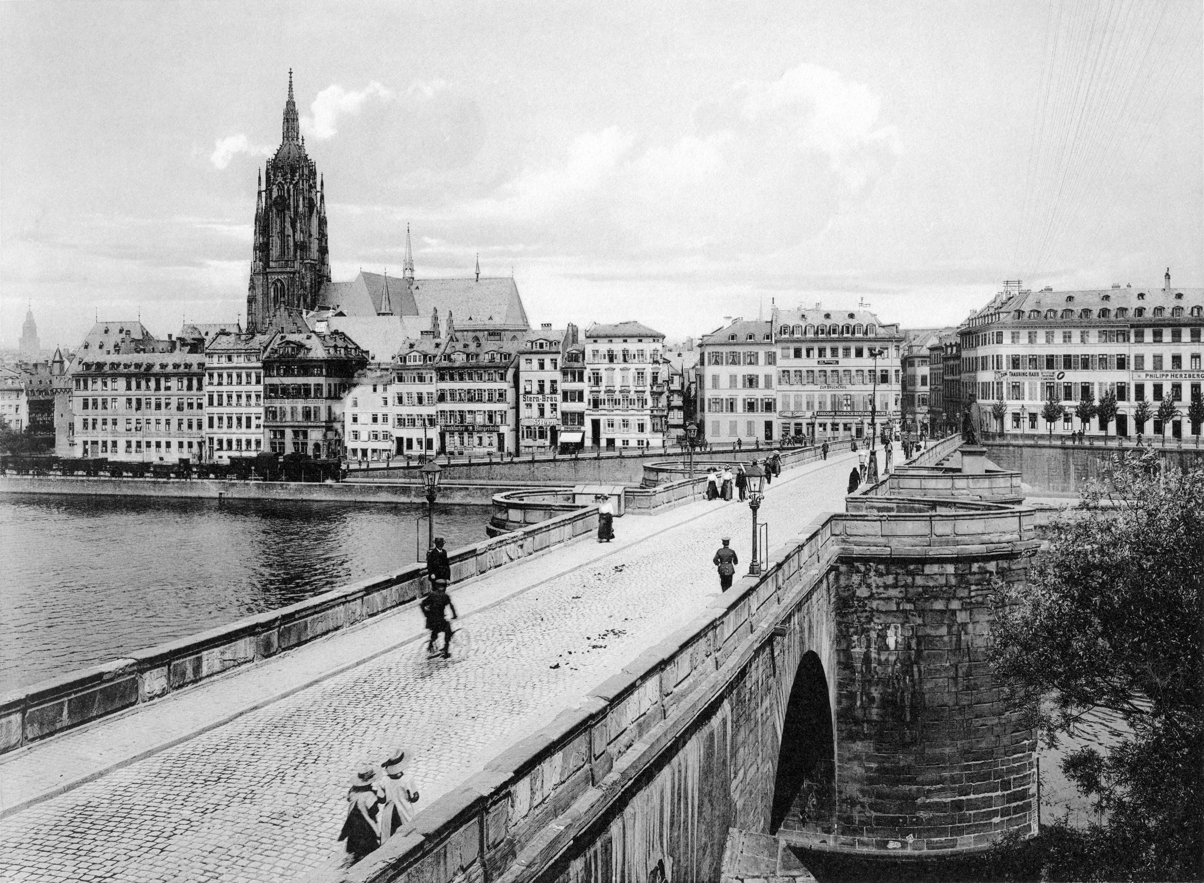 Issue 26, Table 301 / Title on the table: View from the Bridge Mill. / Original description: [Follows]